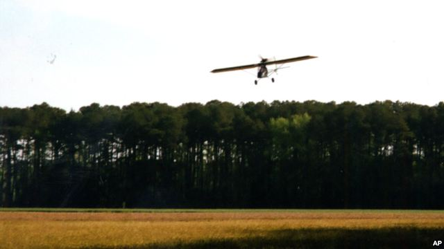 Ghana's first licensed female pilot is working to train more women to fly and maintain light aircraft. (File: Mary Saner/VOA)